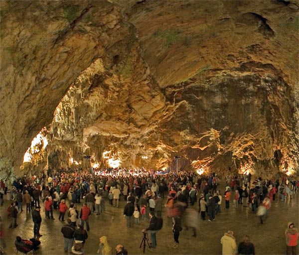 photo: Boštjan Burger, February 8th, 2007. Postojna cave - The gigantic CONCERT HALL